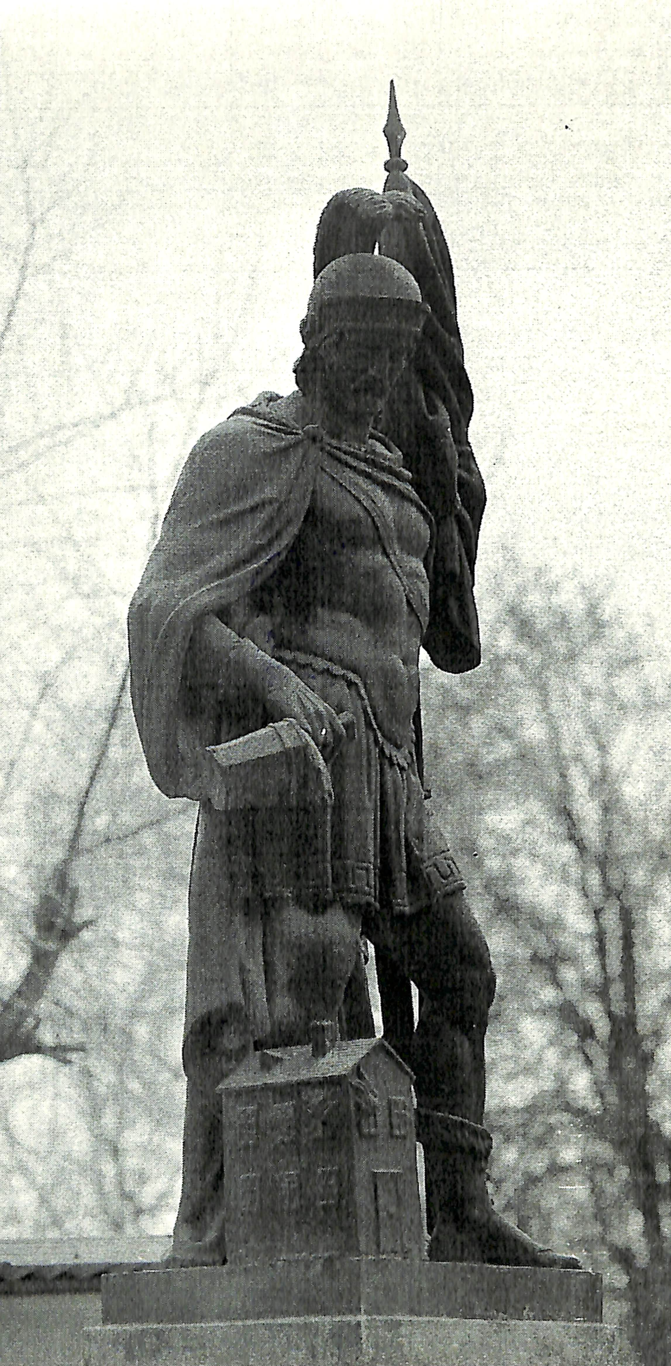 Monument to Saint Florian in Pančevo, firefighter guard